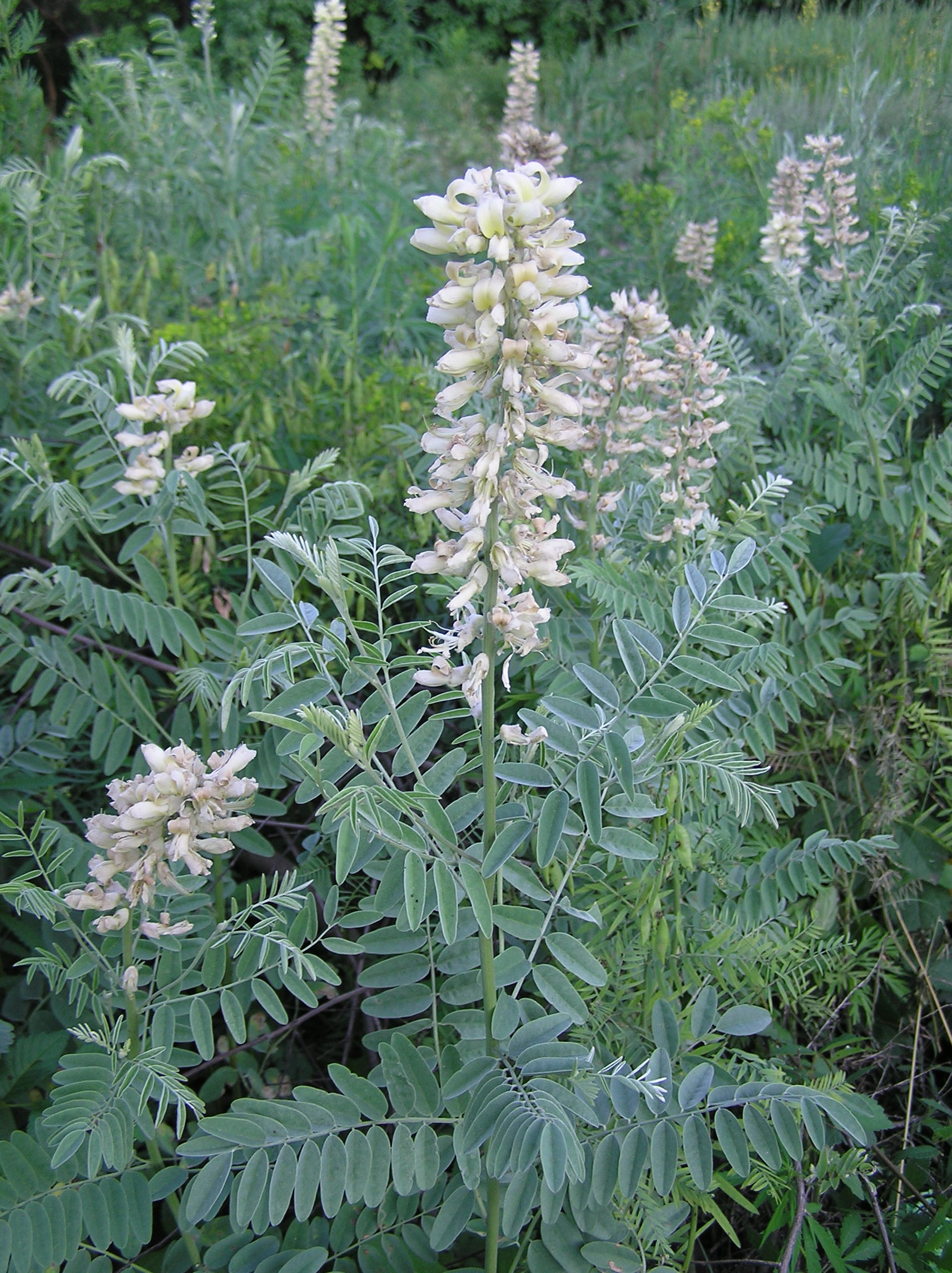 Sophora Root (Sophora alopecuroides L.). Habitat: meadow near a railroad. Vicinity of Saratov city, Russia.